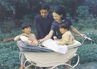 Crown Prince Akihito and Crown Princess Michiko with three children; Prince Naruhito, Prince Fumihito and Princess Sayako. (September 1969)